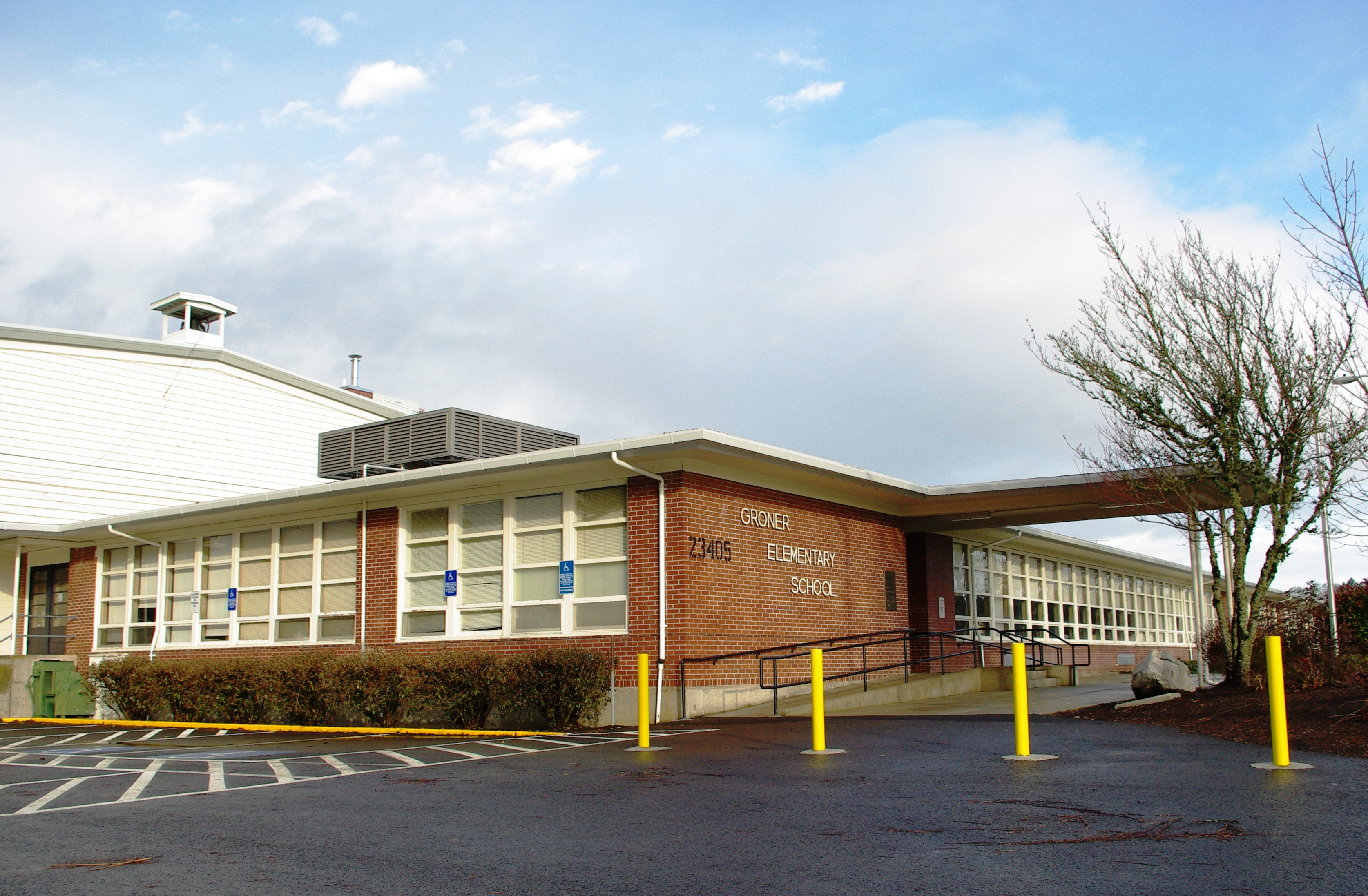 Groner Elementary School in Scholls, Oregon. Part of the Hillsboro School District.